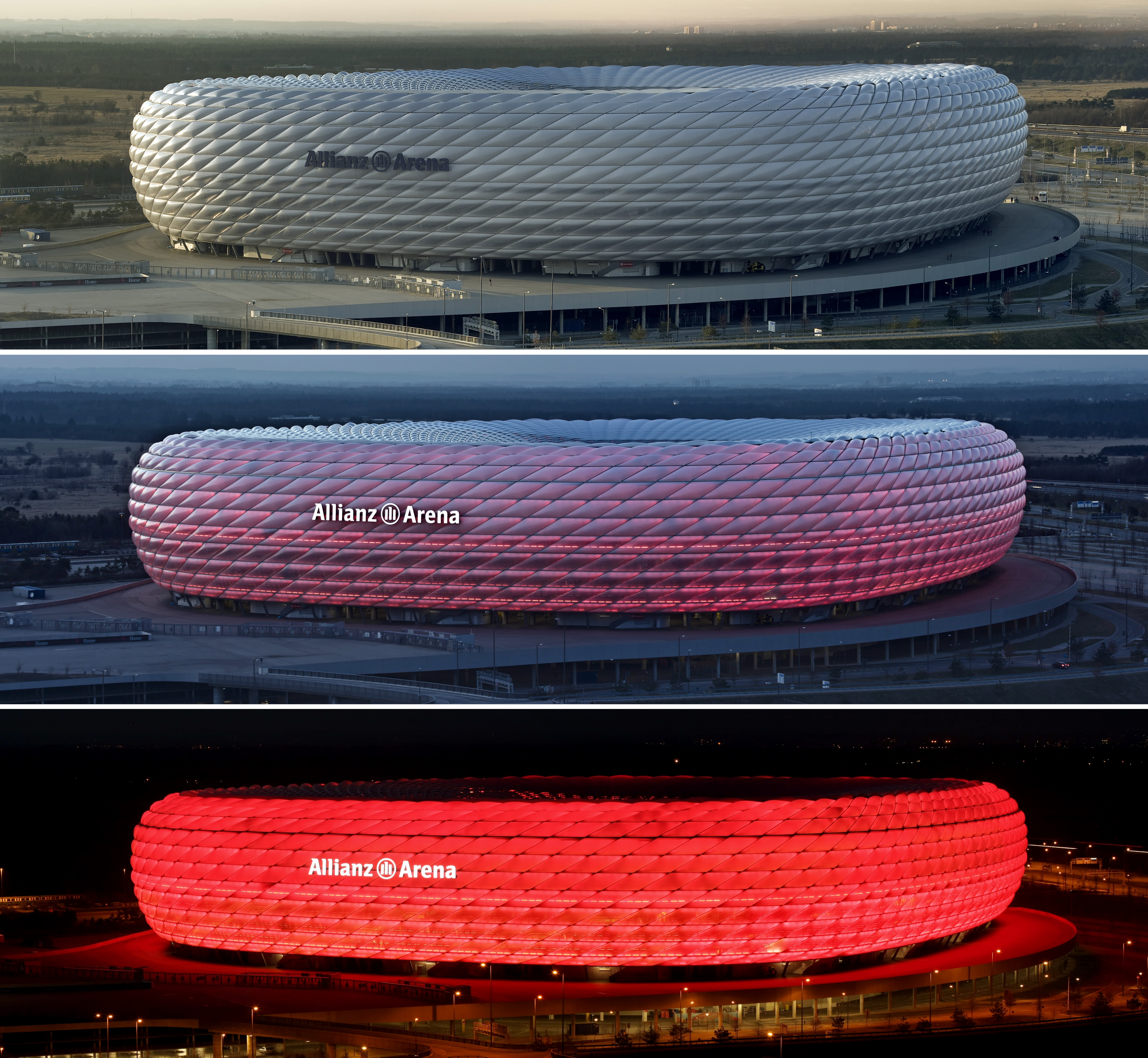 The Allianz Arena is a football stadium in the north of Munich, Germany. The two professional Munich football clubs FC Bayern München and TSV 1860 München have played their home games at Allianz Arena since the start of the 2005/06 season. Because of its shape, the stadium is nicknamed the « Schlauchboot » (inflatable boat).